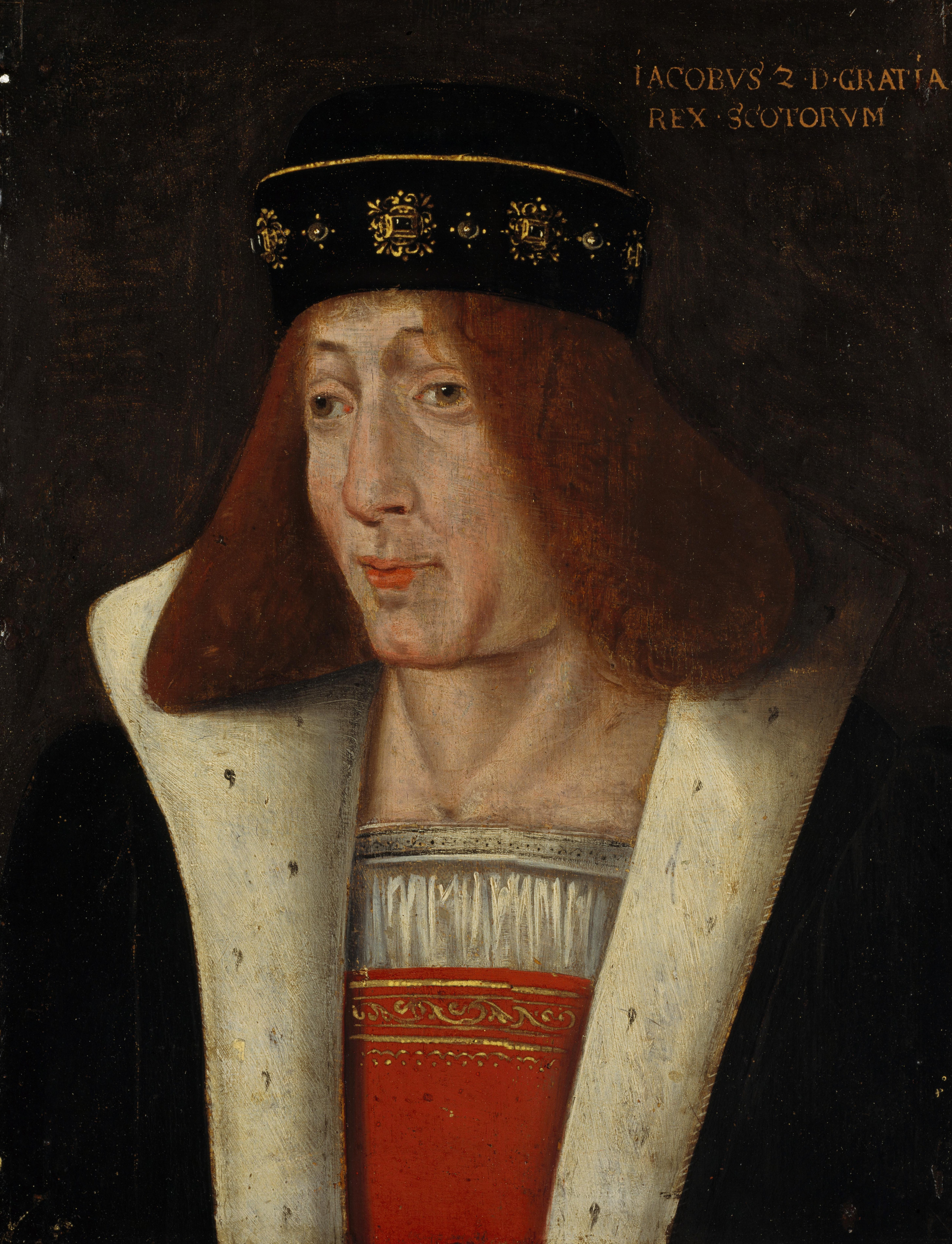 Posthumous portrait of James II of Scotland; oil on panel